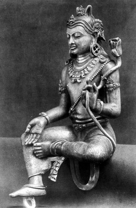 Silver Manjusri figure from Ngemplak Semongan (Indonesia), early 9th century Central Java